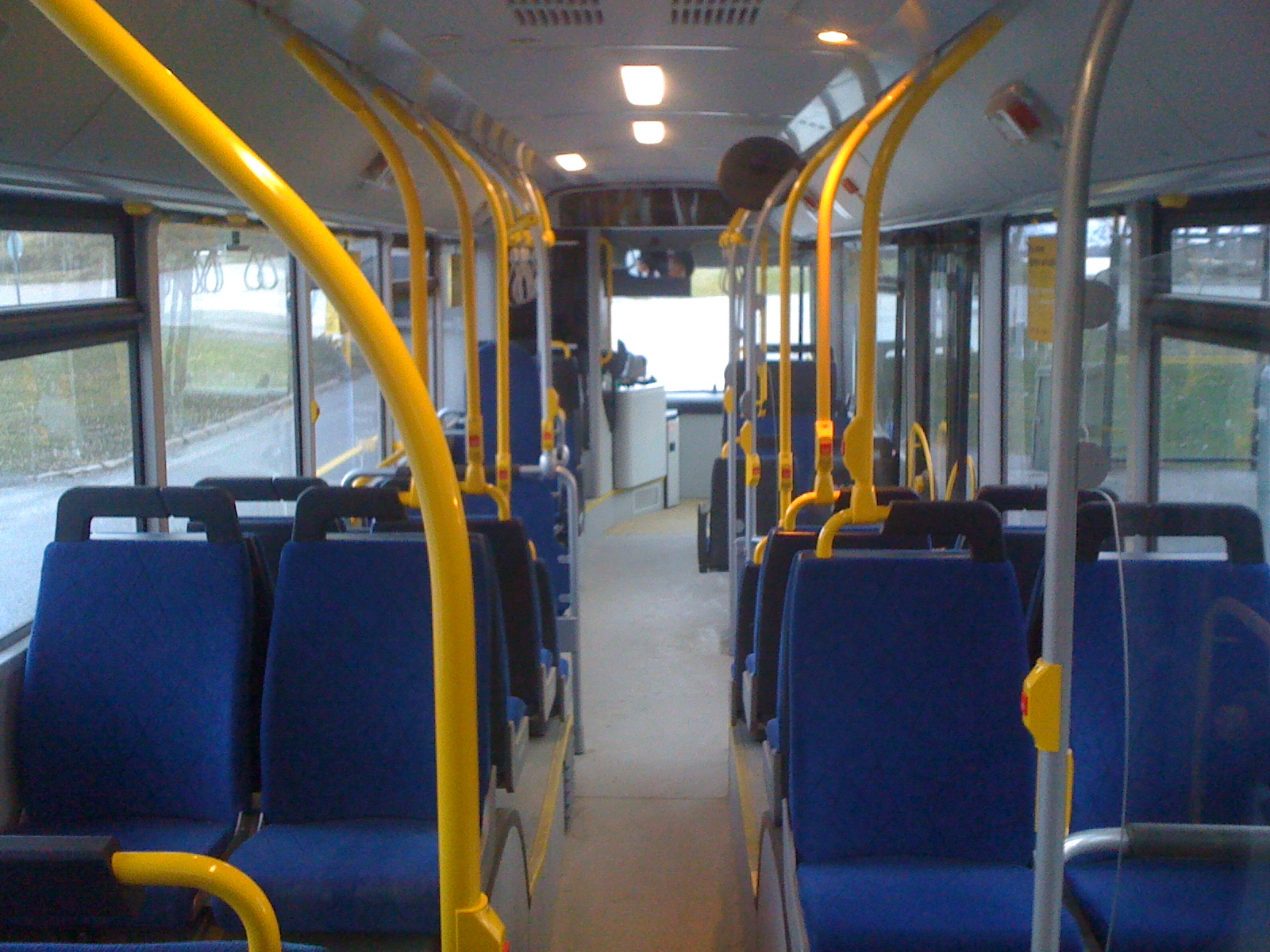 The interior of a MAN Lion's City A21 CNG bus in the Sunnersta neighborhood in Uppsala, Sweden.